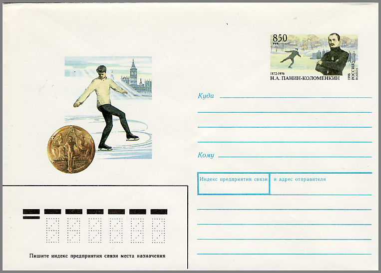 Russia, 1996. Envelope with commemorative stamp (EWCS) № 45. 125th anniversary of the birth of N. A. Panin-Kolomenkin, , the figure skater, Russia's first Olympic champion. Painter Y. Zhukov.